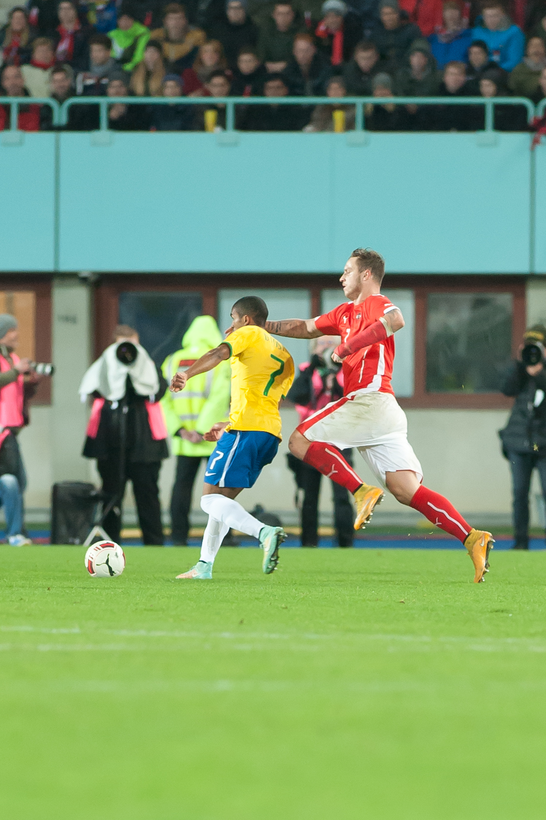 International Friendly Austria - Brazil November 18, 2014: Marko Arnautovic